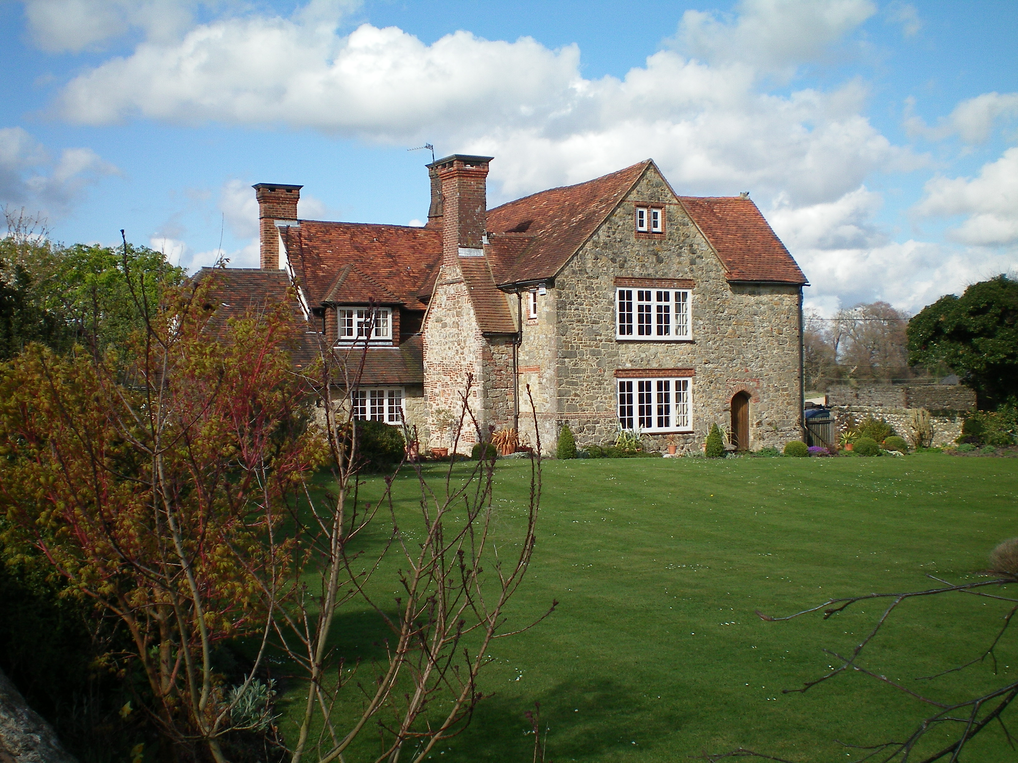 Bignor Manor House, West Sussex, England.